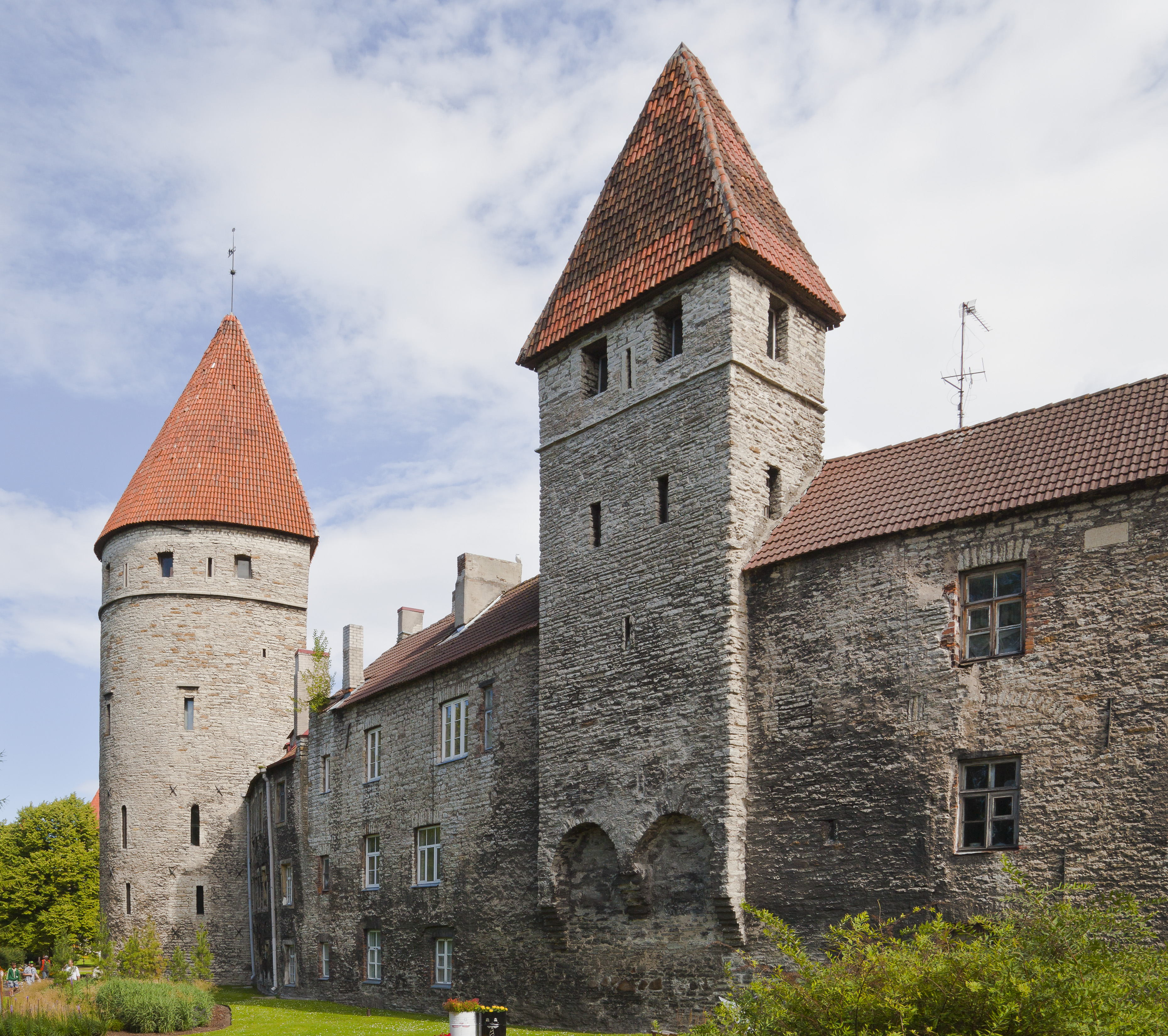 Walls of the old city of Tallinn, Estonia